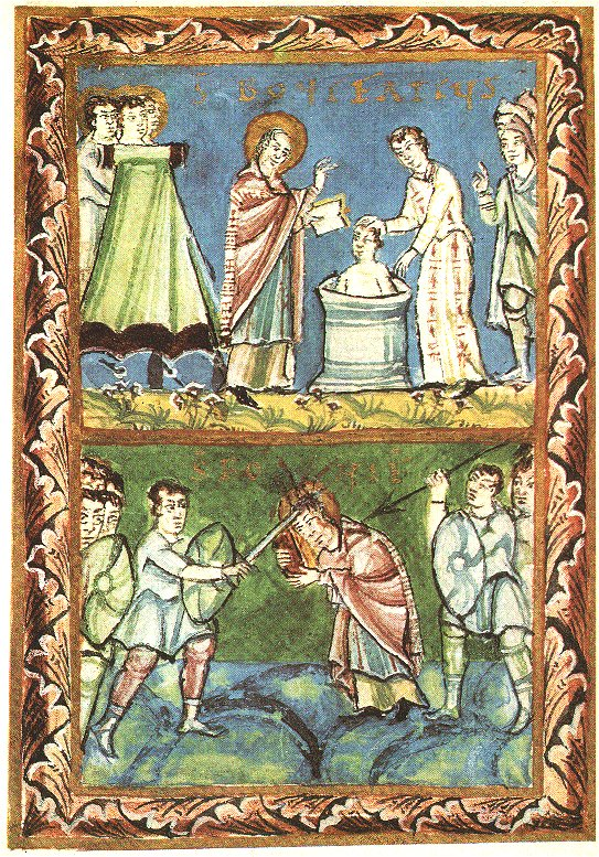 St. Boniface Baptising and Martyrdom in 754